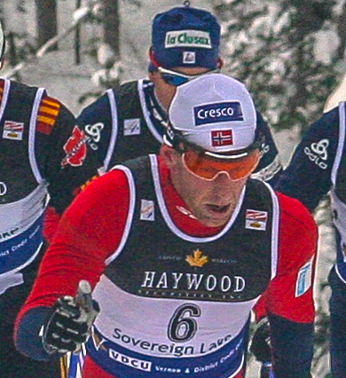 Sovereign Lake Ski Area, Vernon, BC ...FIS World Cup Cross Country race...